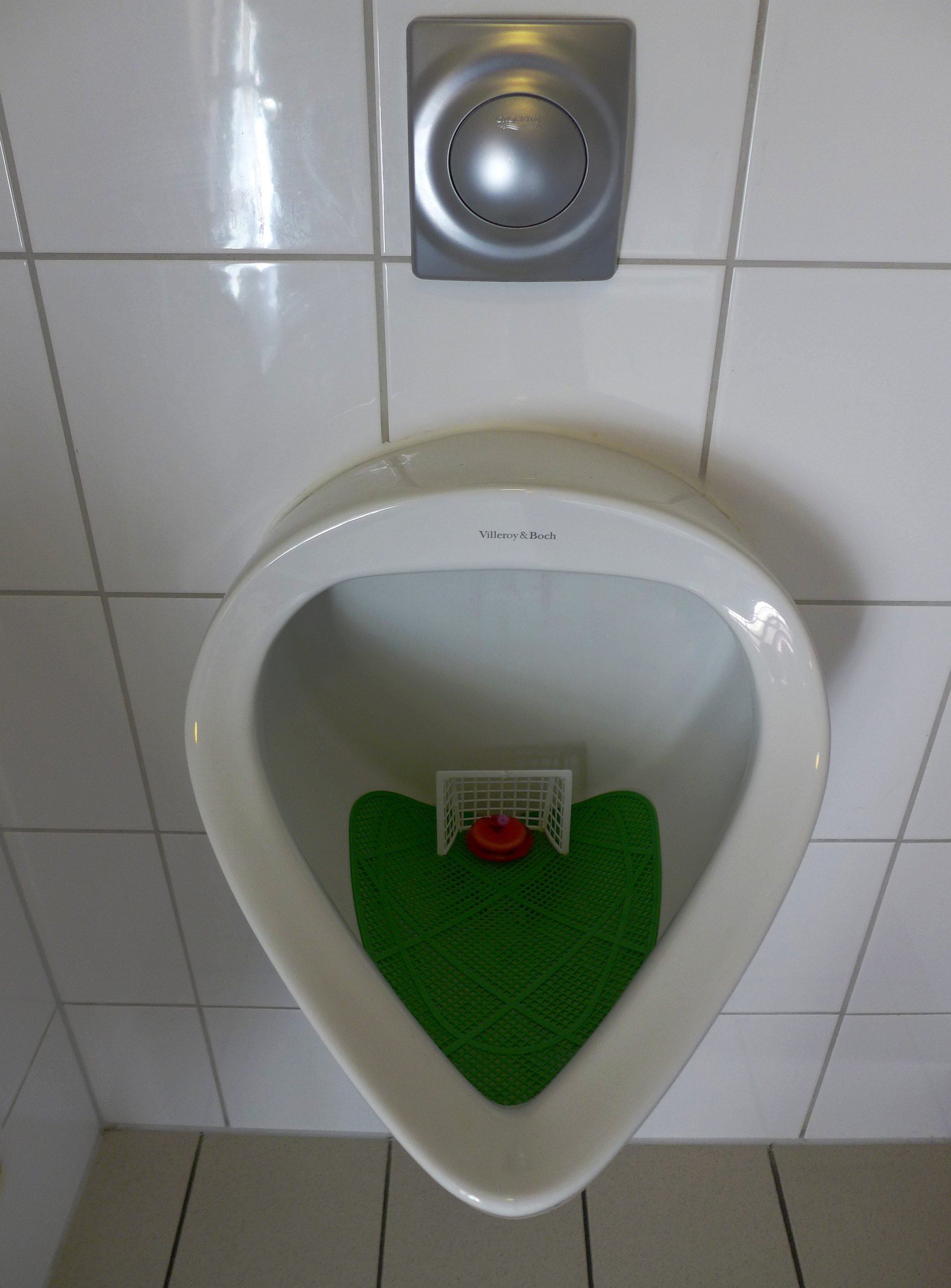 Urinal with soccer goal in Lüneburg.